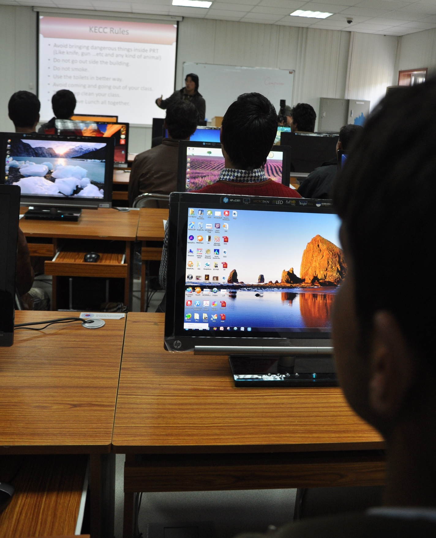 Local Afghan students learn about the rules and regulations of their computer class at the Korean Education and Cultural Center in Parwan, Jan. 25. The computer class is six months long and teaches students about Windows, Microsoft Word and PowerPoint.